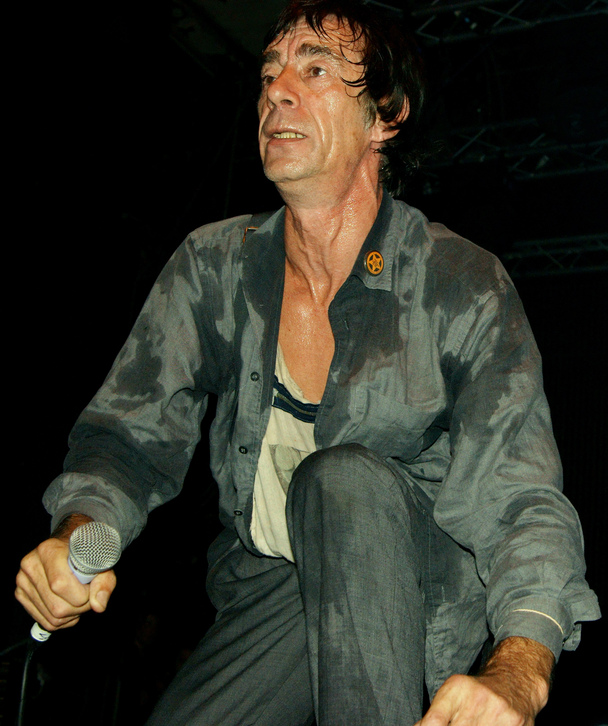 Image of Jimmy Pursey (born 9 February 1955) performing at Electric Brixton, London, England on 14 July 2012